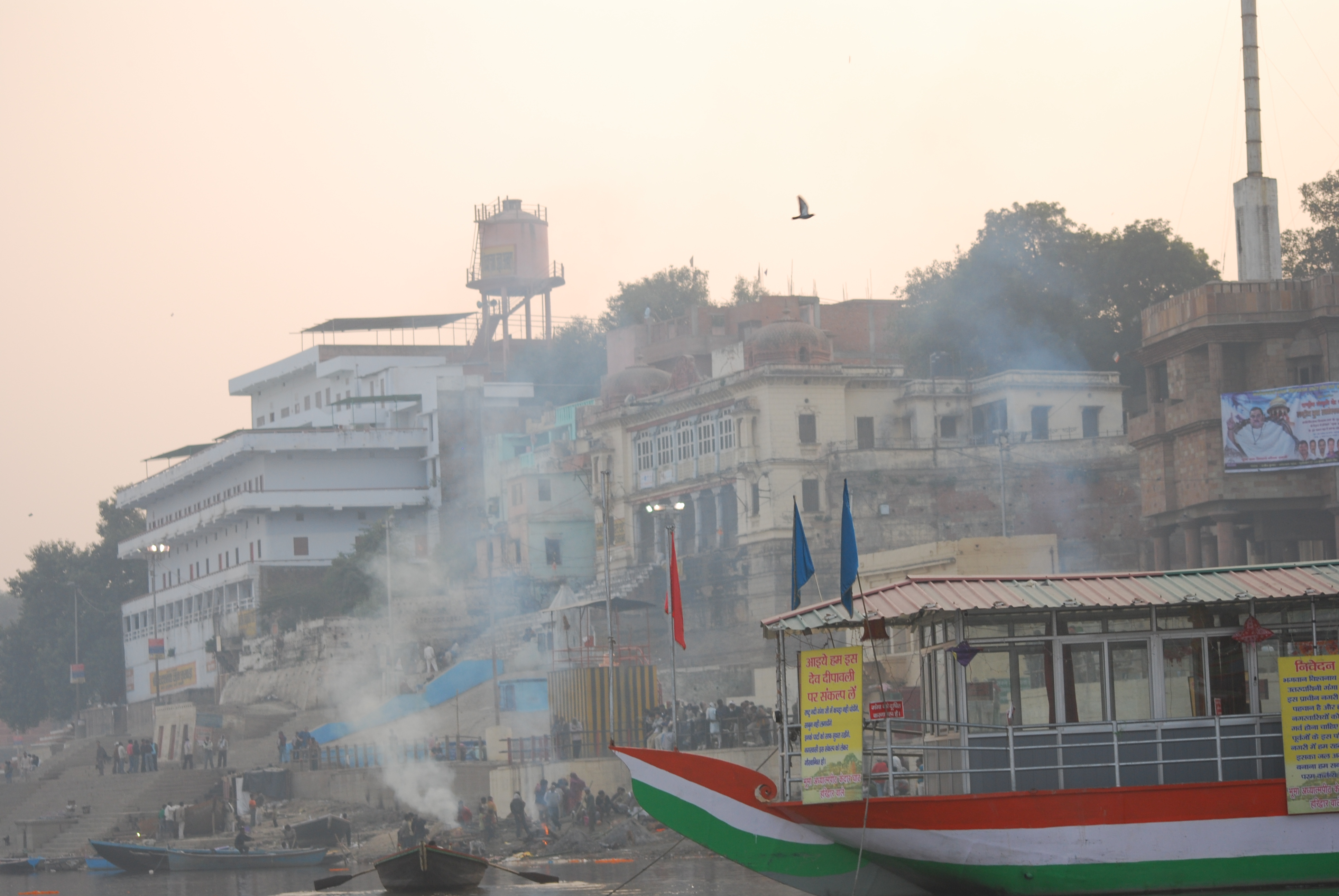 Cremation on the Ganges